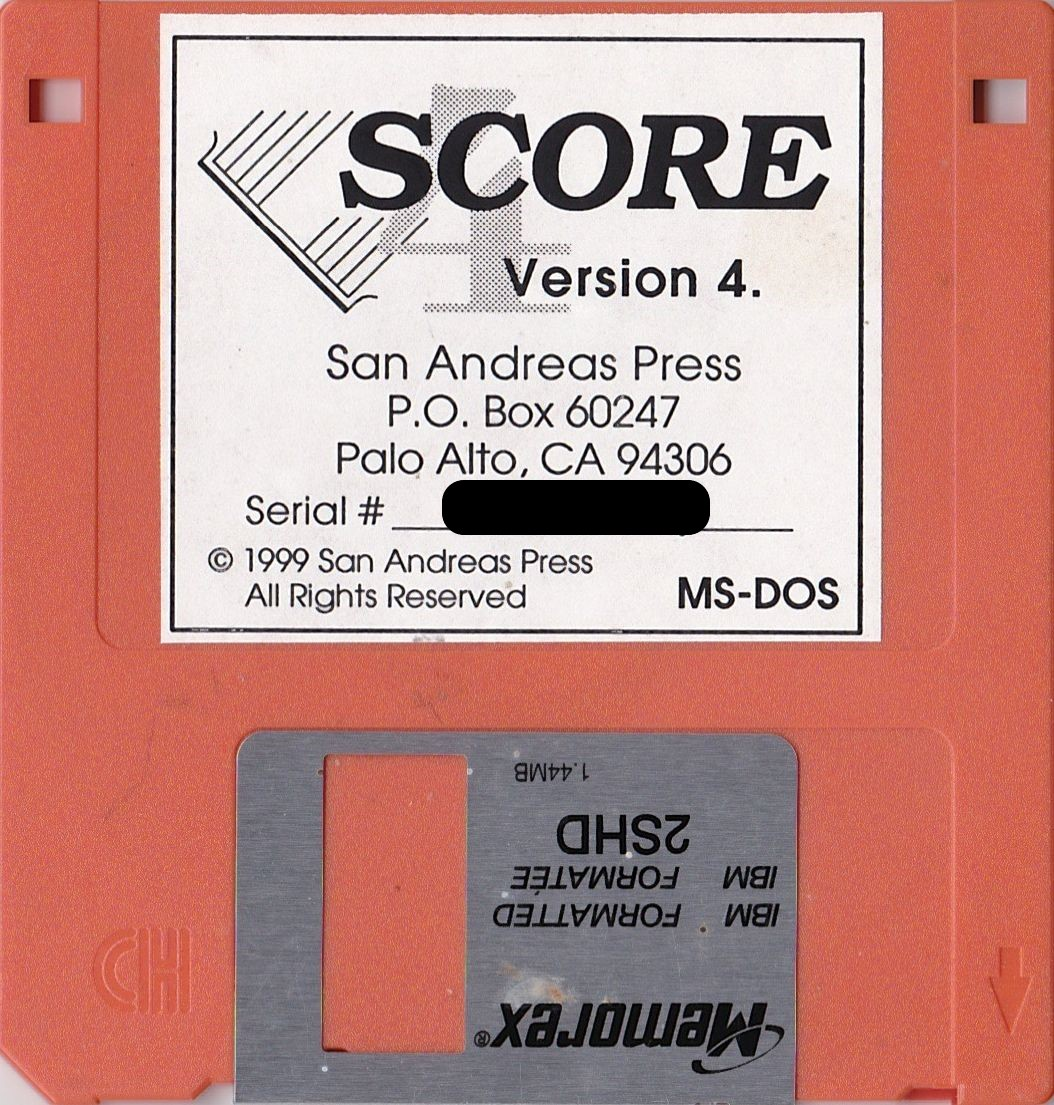 Install 3.5" floppy disc for SCORE Version 4